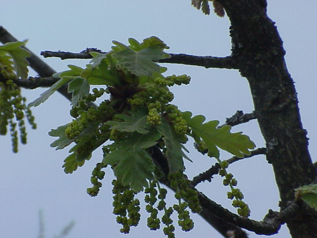 Species: Quercus x frainetto Family: ' Image No. 2